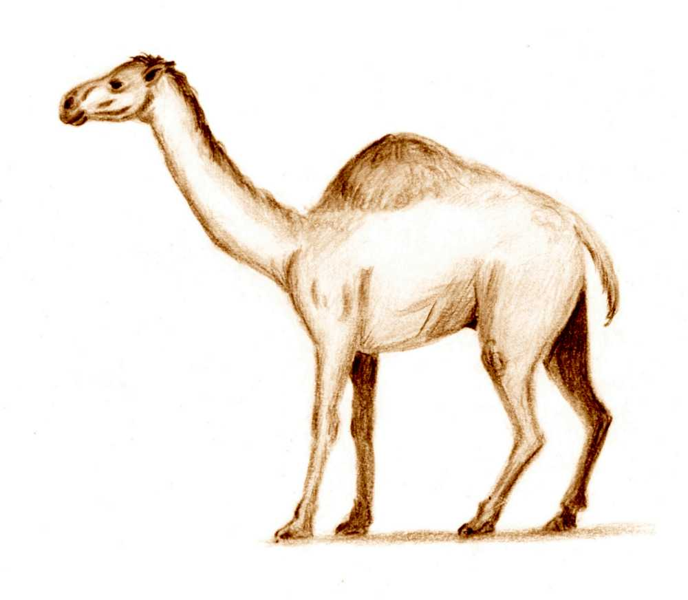 Camelops. Author:User:ArthurWeasley